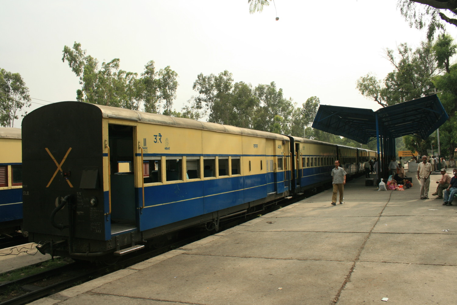 Baijnath Paprola station